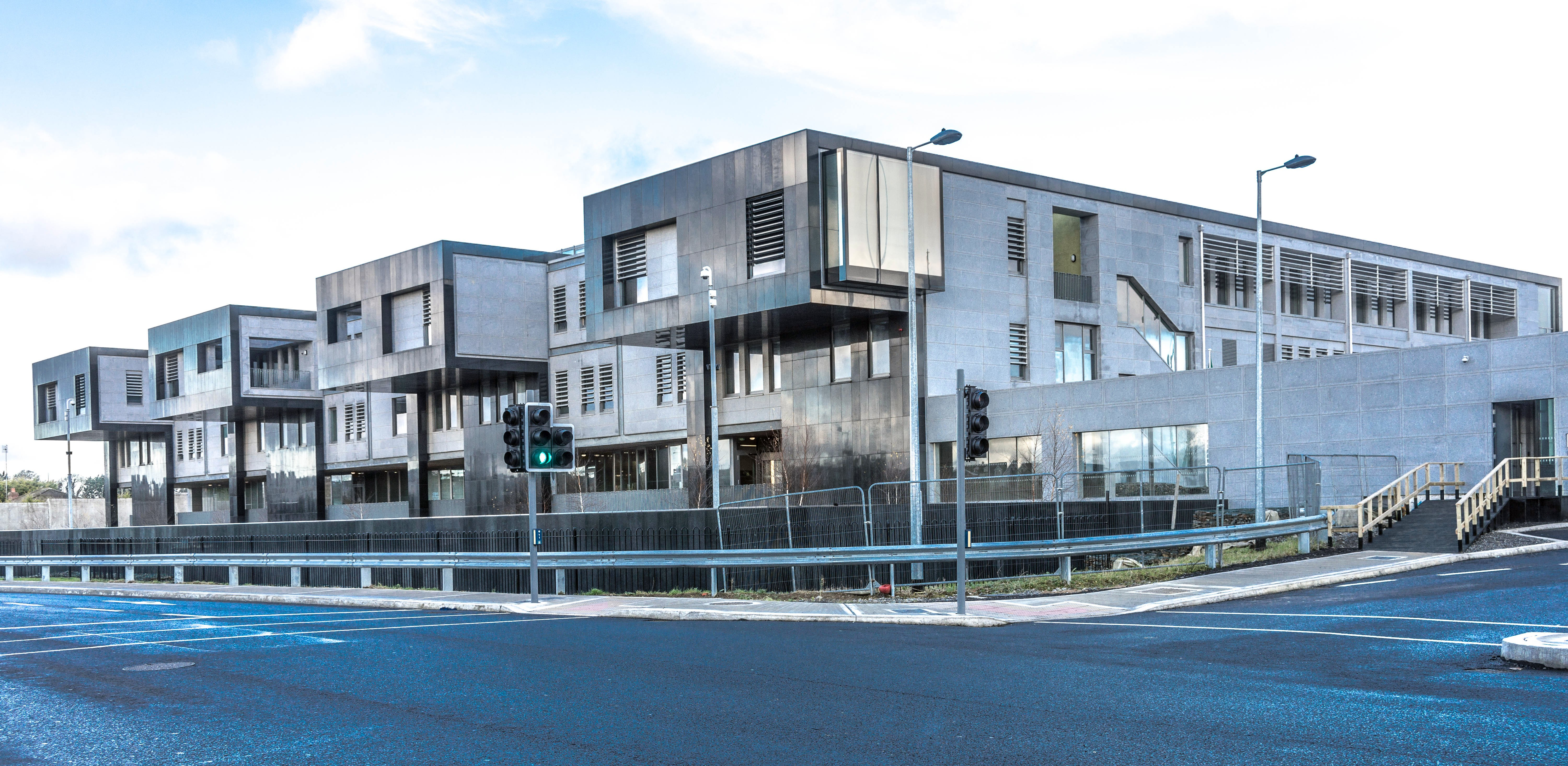 Department of Defence (Ireland) Headquarters, Station Road, Newbridge, Co. Kildare